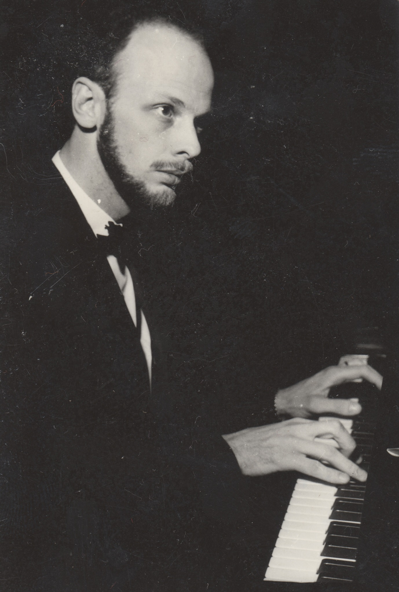 Swedish jazz piano player Jan Johansson.